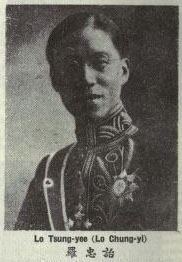 Luo Zhongyi (1886-1963)